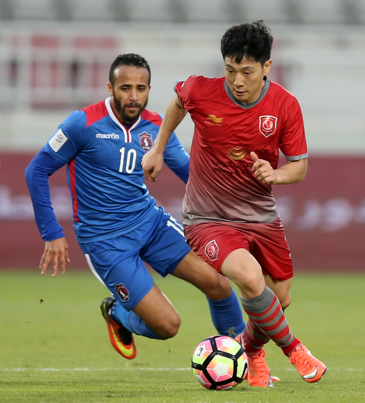 Nam playing for Lekhwiya in 2016